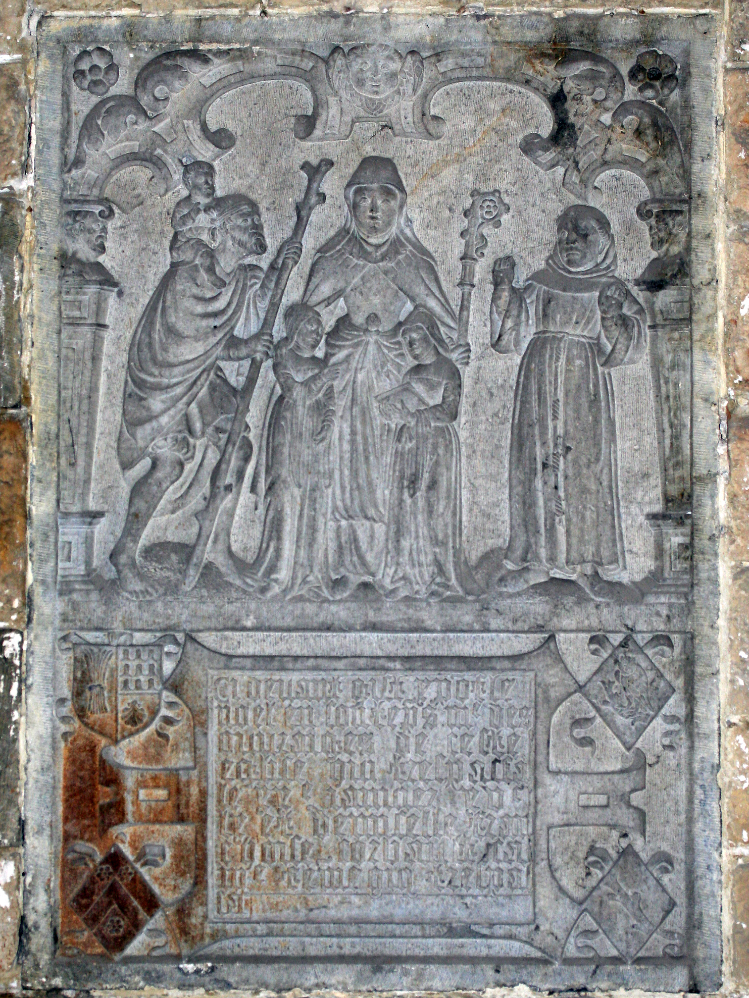 Bas-relief showing Saint Christopher, Saint Waltrude and his daughters, and Francis of Assisi - Western Wall of the St. Waltrude Collegiate Church in Mons.